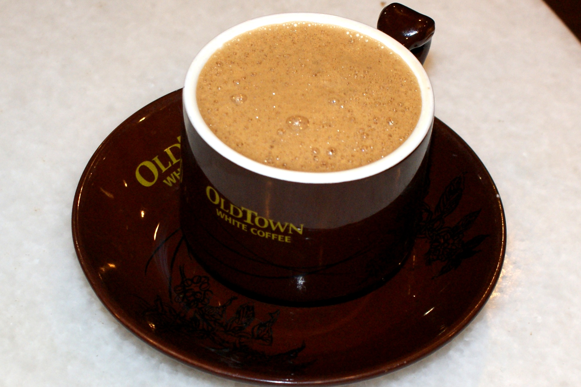 White coffee of Old Town White Coffee, Malaysia